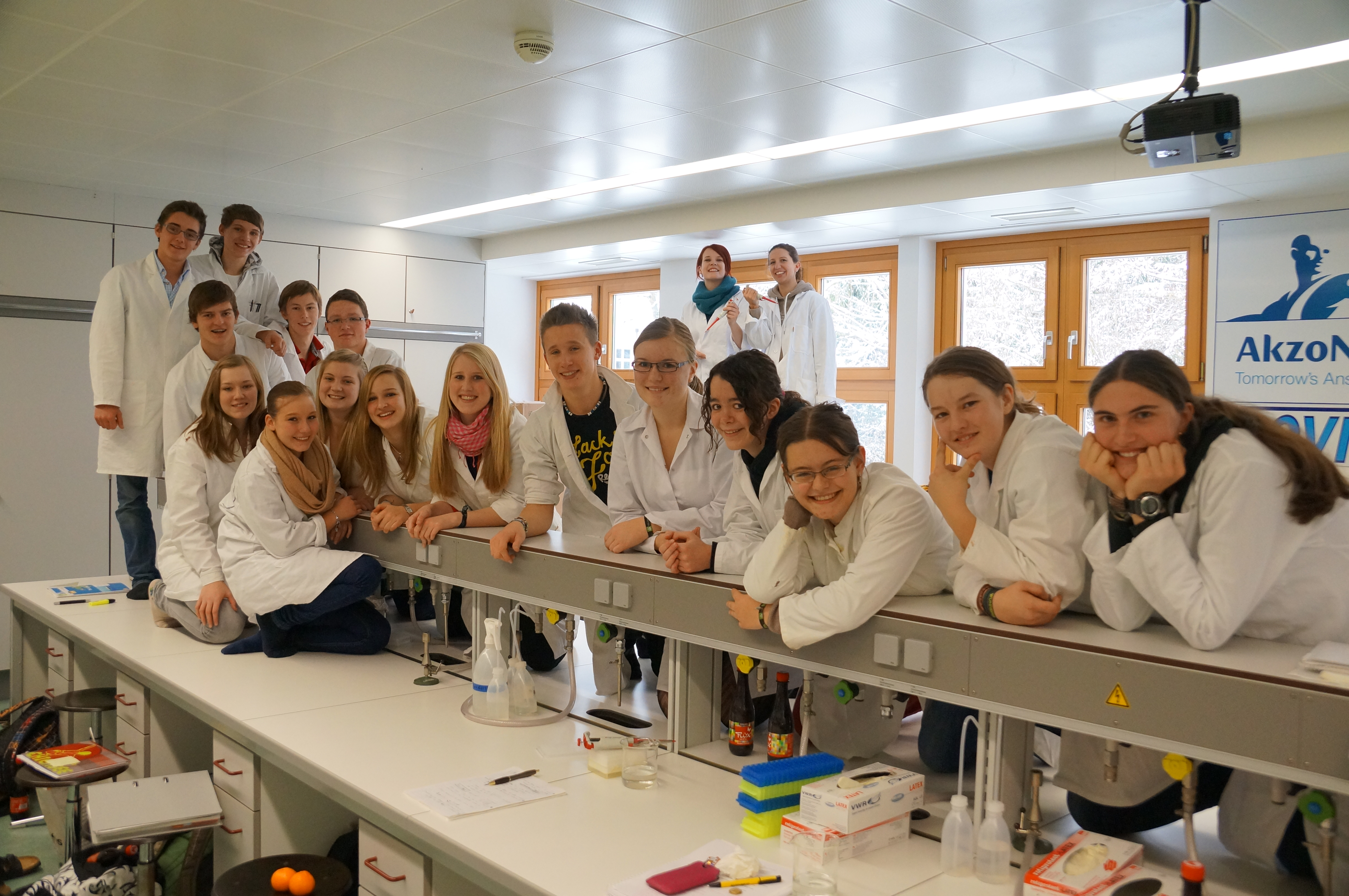 The Lab at Ursprung